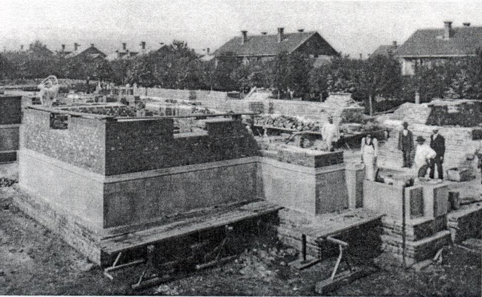 Building of the roman catholic church in Diósgyőr-Vasgyár in 1905, Miskolc, Hungary